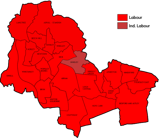 Wigan ward map with political colouring.